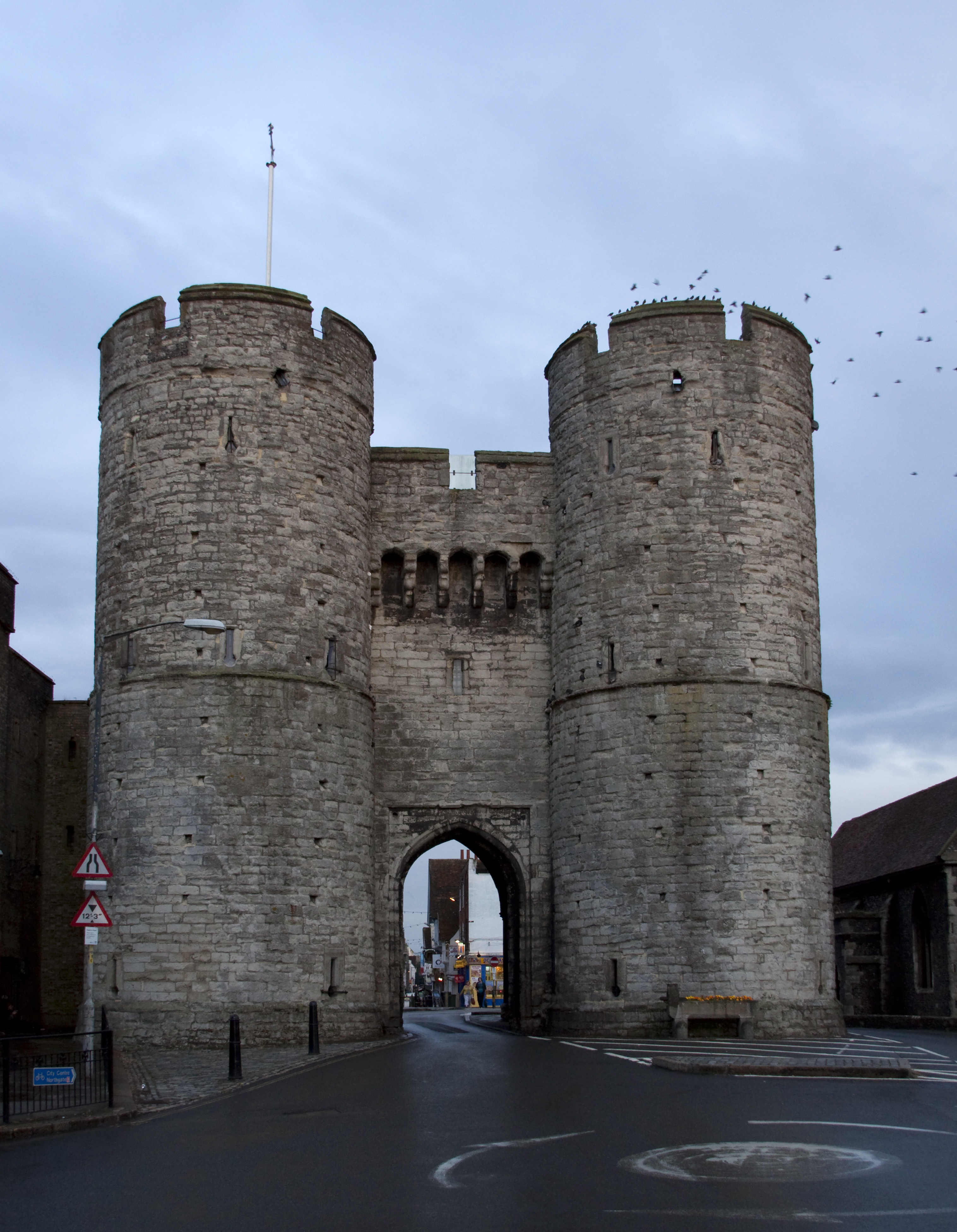 The West Gate Canterbury